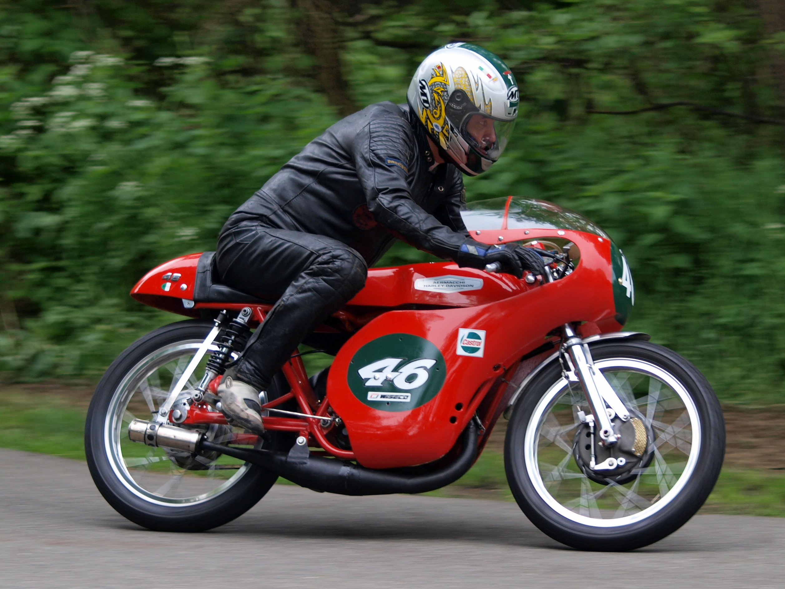 Photographed at Rockanje, The Netherlands.